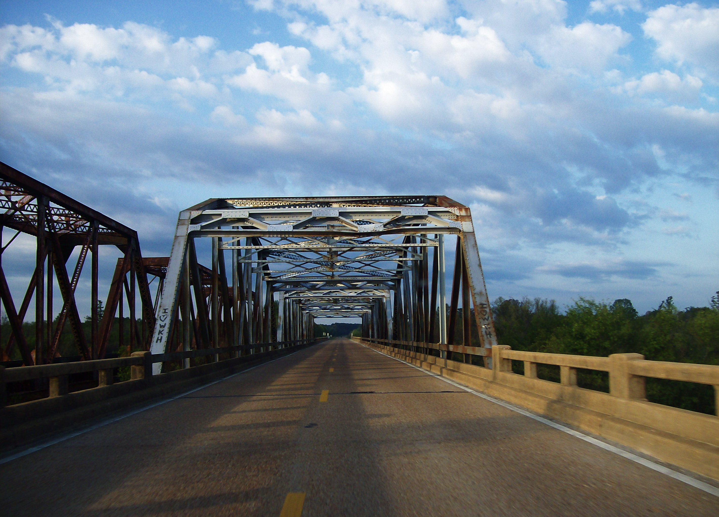 Mississippi State Highway 7 and Mississippi Central Railroad bridges over the Tallahatchie River at the Lafayette-Marshall county line in Mississippi. This sweeping bottomland, located approximately halfway between Holly Springs and Oxford, was the inspiration for fictional settings in several works by William Faulkner. This bridge on Highway 7 was replaced and removed in 2015